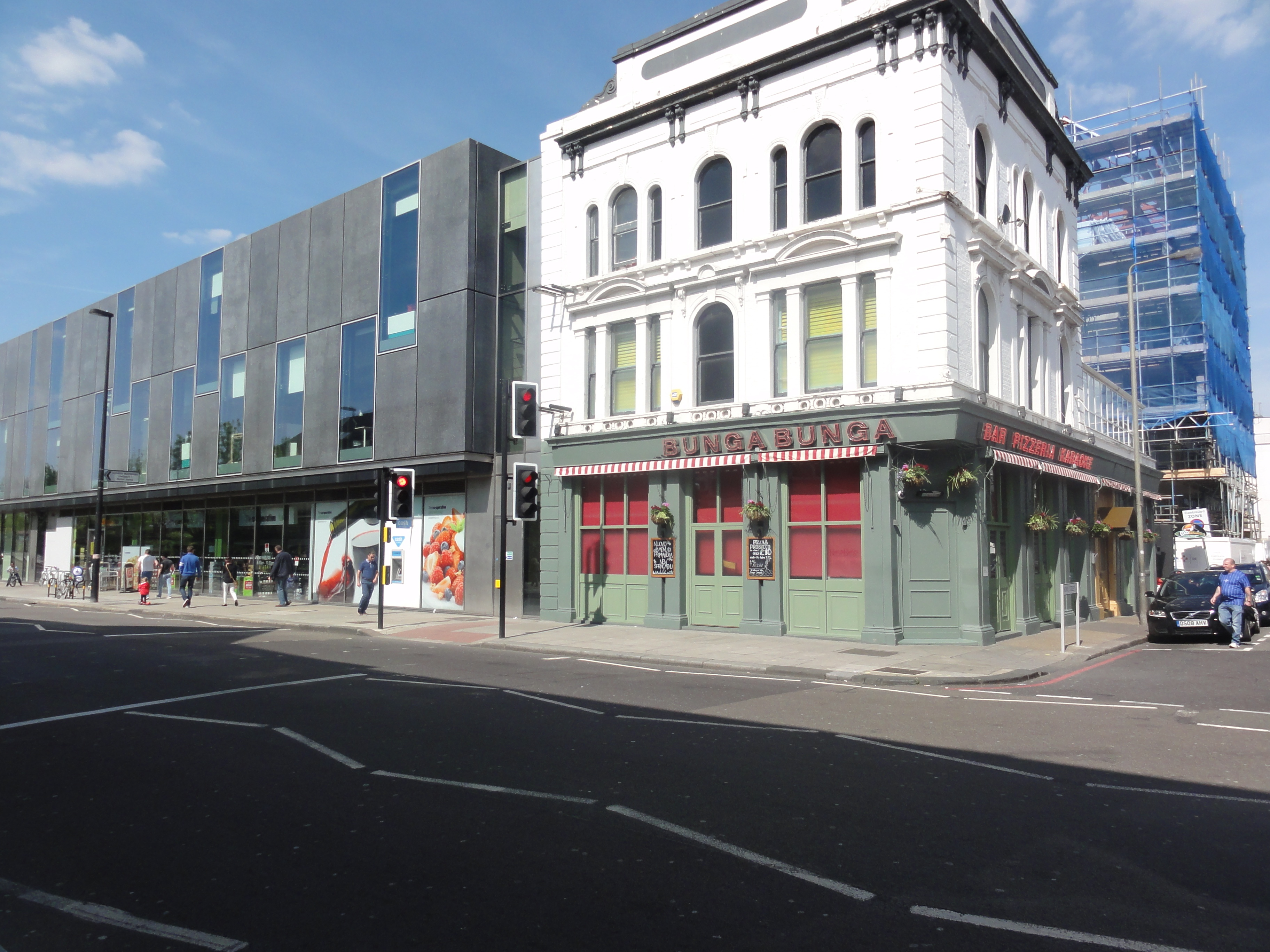 A Silvio Berlusconi-themed bar and pizza restaurant in Battersea. Inside, pictures of topless women surround the bar, and cocktails are served from chinaware shaped like Berlusconi's head.